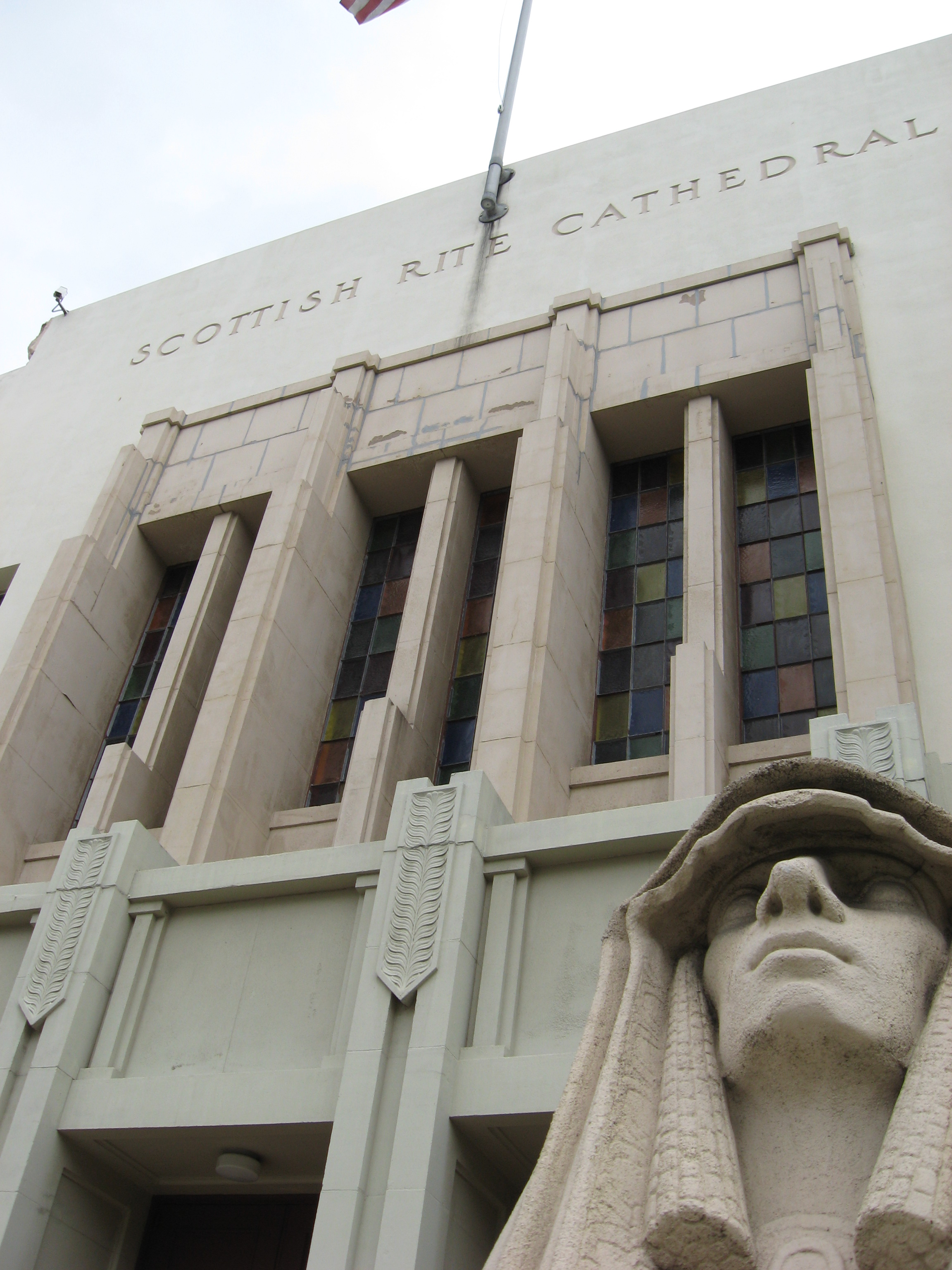 Scottish Rite Cathedral, 150 N. Madison Avenue, Pasadena, California. National Register of Historic Places in Los Angeles County, California.